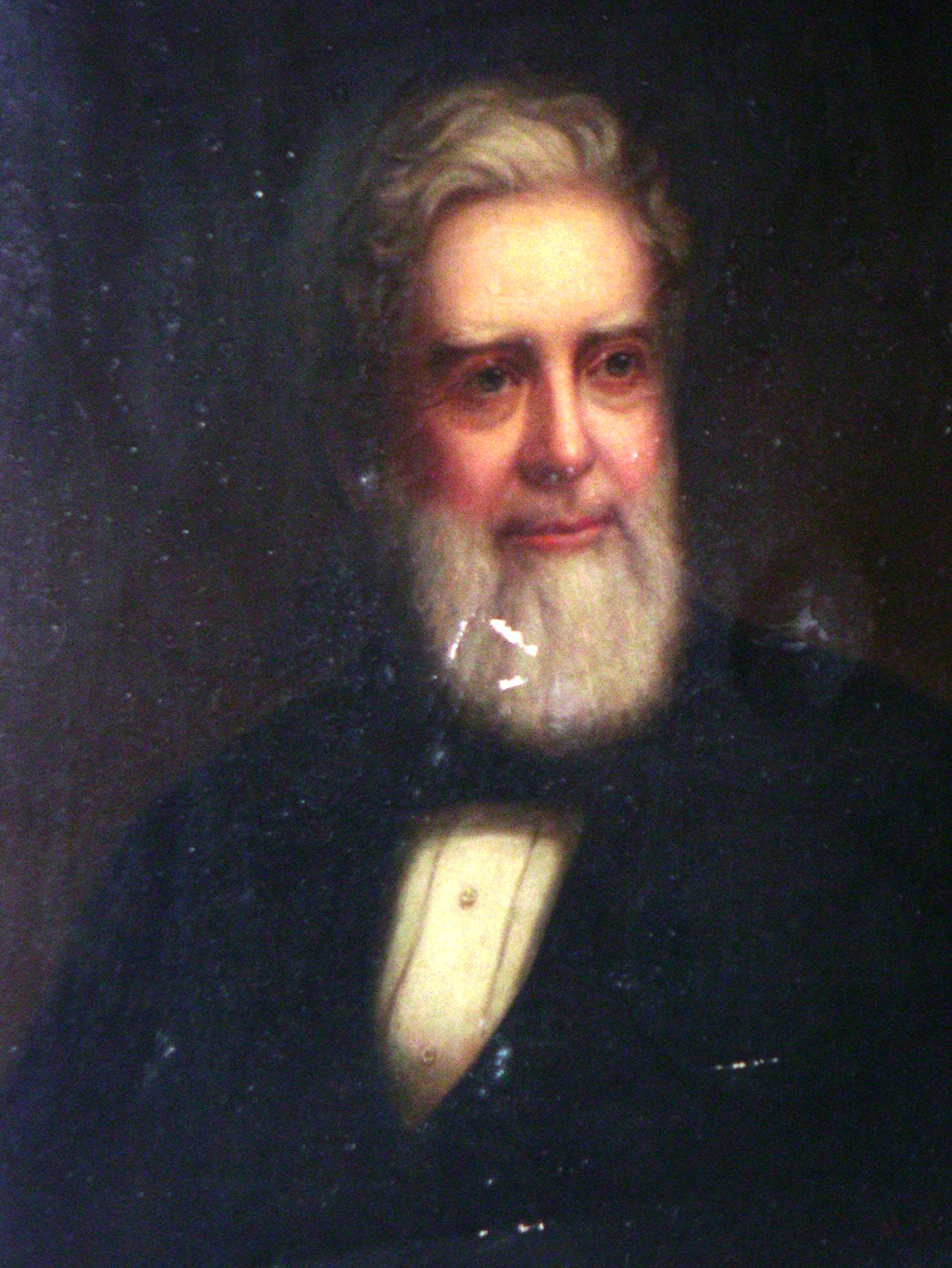 Portrait of New York businessman and patent medicine producer, Benjamin Brandreth (1807-1880) by unknown artist in the personal collection of the editor.